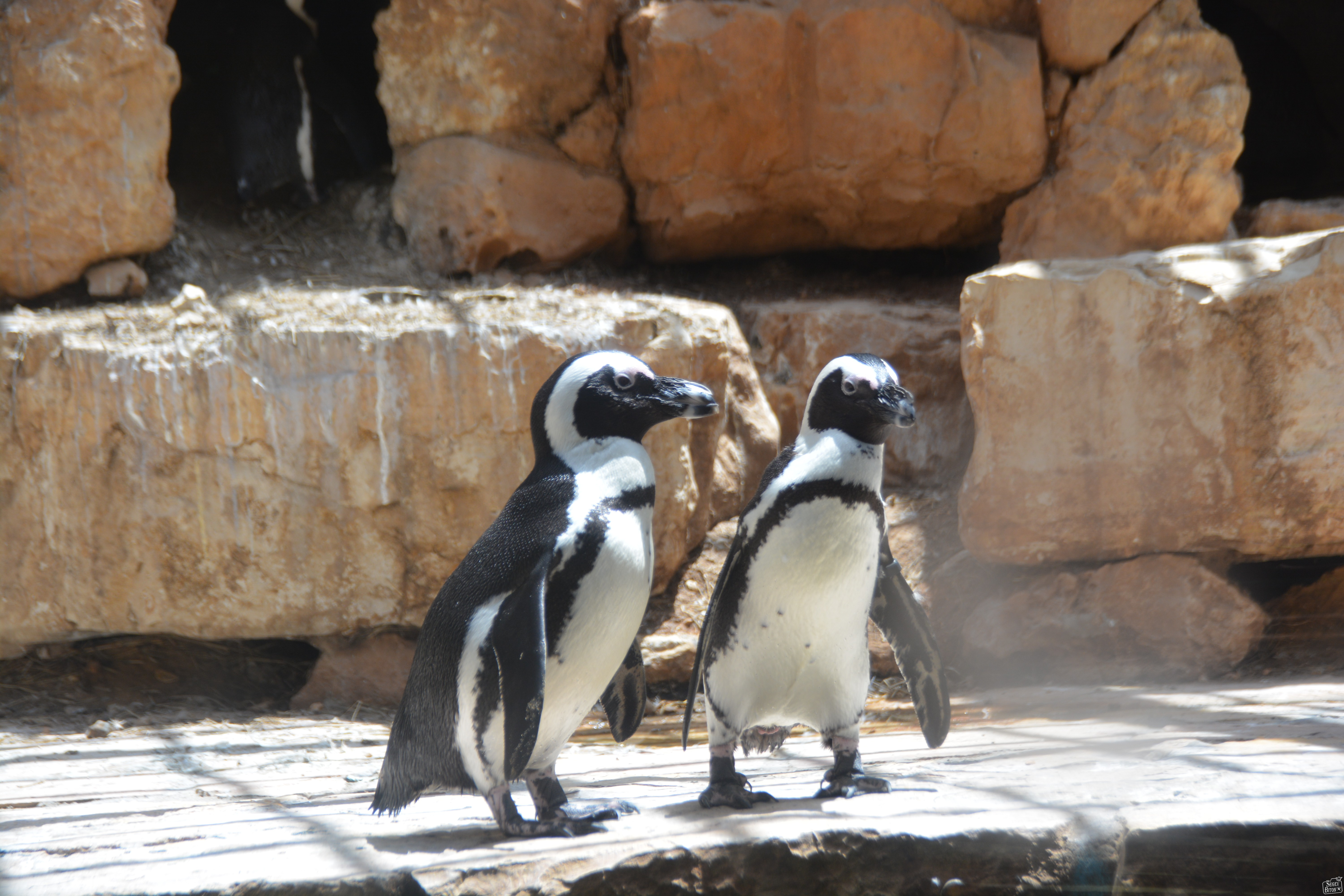 The Biblical Zoo in Jerusalem